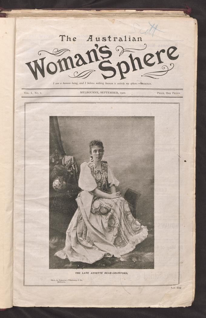 The front page of the first edition of Australian Woman's Sphere, published by suffragist Vida Goldstein in September 1900.